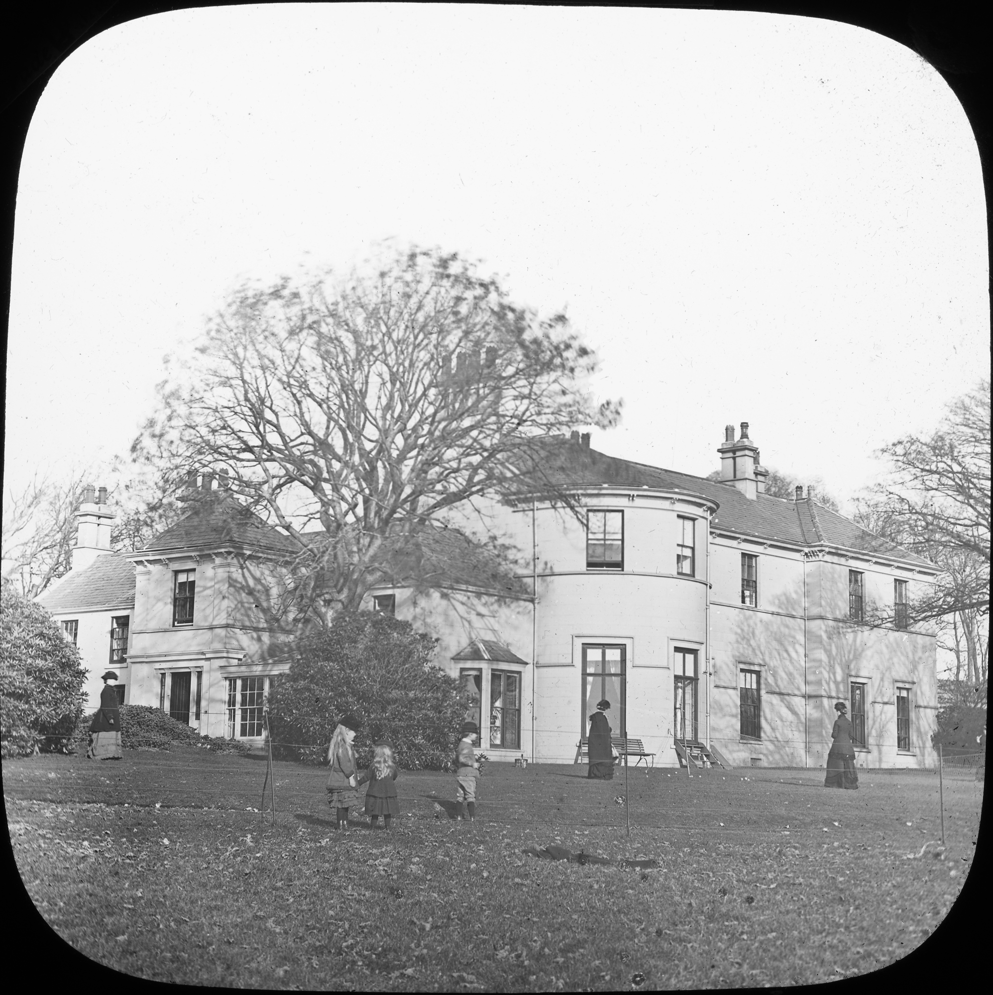 The "Big House", which was a significant presence in Irish communities down the years, is what we feature today. Labelled in the catalogue as "Big House with figures - adults and children - on lawns", we wondered however who and where they were(?) While it looked possible that this one might elude us, [/photos/20727502@N00/ guliolopez] (somehow) managed to connect this image with other recent Manx images from the Mason collection. And suggested that this is Government House (the Governor's residence) on the Isle of Man. [/photos/91549360@N03/ O Mac] and [/photos/129555378@N07/ sharon.corbet] quickly found corroberating evidence - and in doing so established that this image must predate 1904. Armed with this, [/photos/beachcomberaustralia/ beachcomberaustralia] contacted the IOM Lt Governor's office and established that the image dates to perhaps the 1880s, around the time that Henry Loch was governor. Making it possible that those pictured might include members of his family: This photograph is indeed Government House in the Isle of Man and is published in the book ‘Governors of the Isle of Man since 1765’ by Derek Winterbottom and is captioned Bemahague in the 1880s. This would mean that it is likely the photograph was taken during the term of office of Sir Henry Loch 1863- 1882 (later Lord Loch). I would suspect that the children are his – Douglas, born in 1873 and Edith and Evelyn following at two year intervals. That would seem about the right ages for the photograph. Loch married Elizabeth Villiers in 1862 and she was 21 years old so could be in the photograph. ... Photographer: Thomas H. Mason Collection: Mason Photographic Collection Date: Catalogue range gives c.1890-1910. Though definitely before 1904. And likely 1880s. Per discussion. NLI Ref: M50/17 You can also view this image, and many thousands of others, on the NLI’s catalogue at